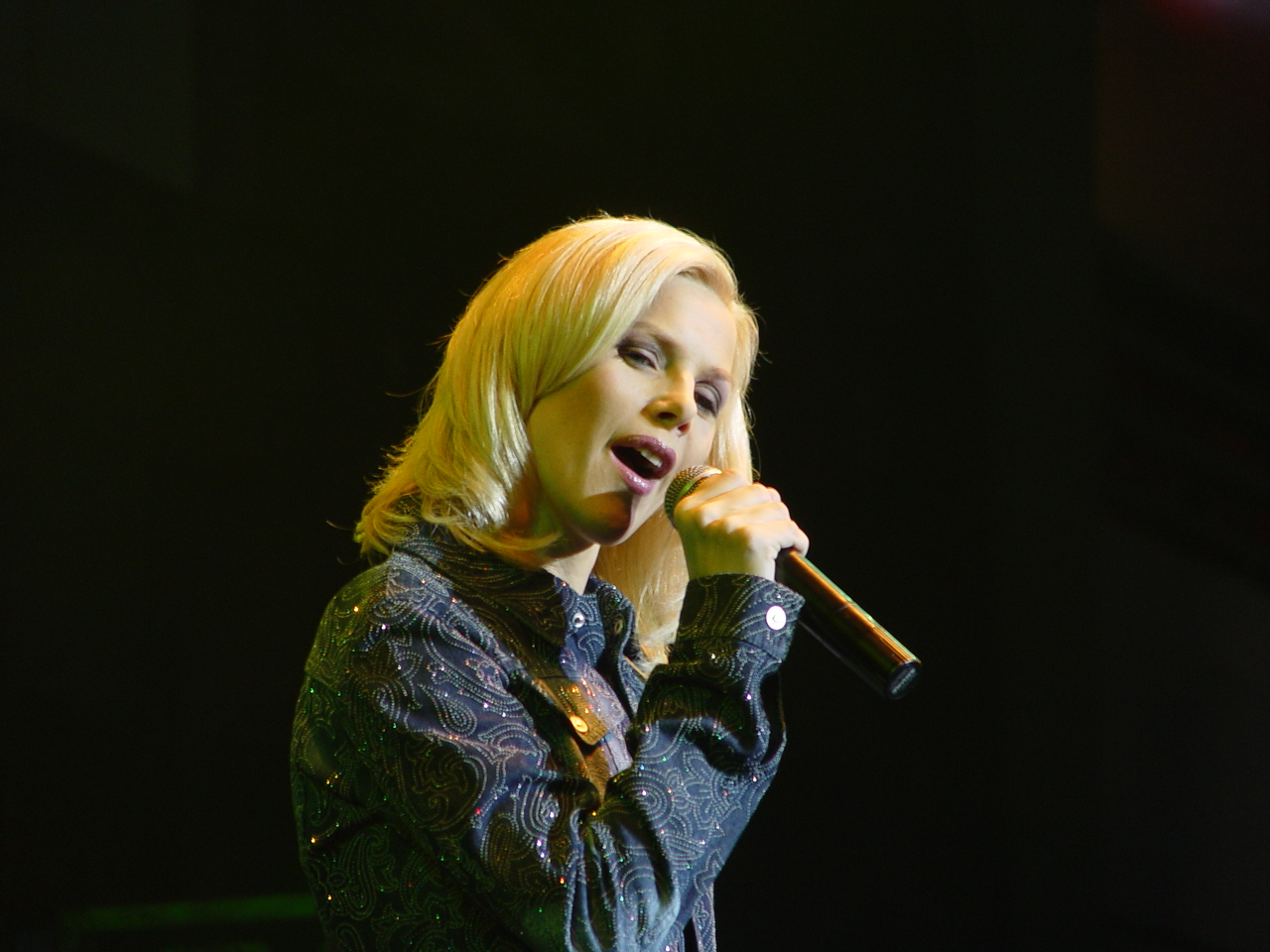 С.С. Catch in Moscow, 2002.